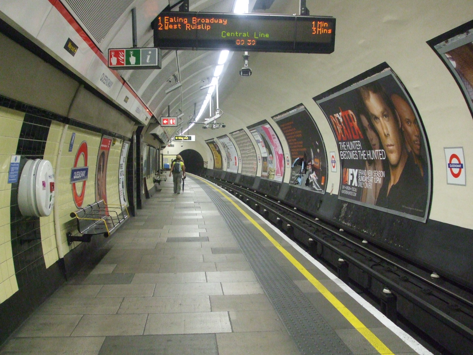 Queensway tube station westbound platform looking east